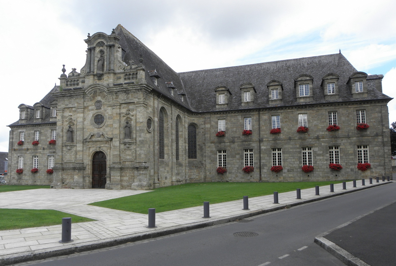 Picture of Guingamp's town hall